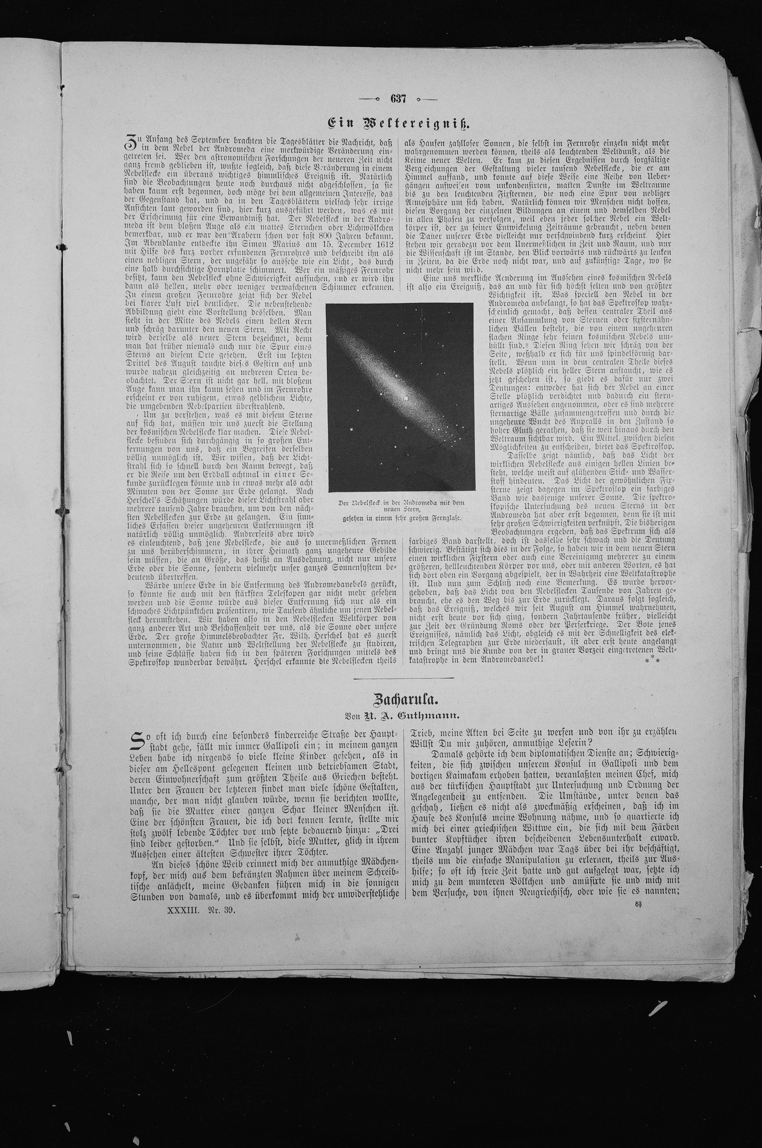 Page 637 from journal Die Gartenlaube for 1885. Extracted image (if any): File:Die Gartenlaube (1885) b 637.jpg - hi res, ~2.5 MB.